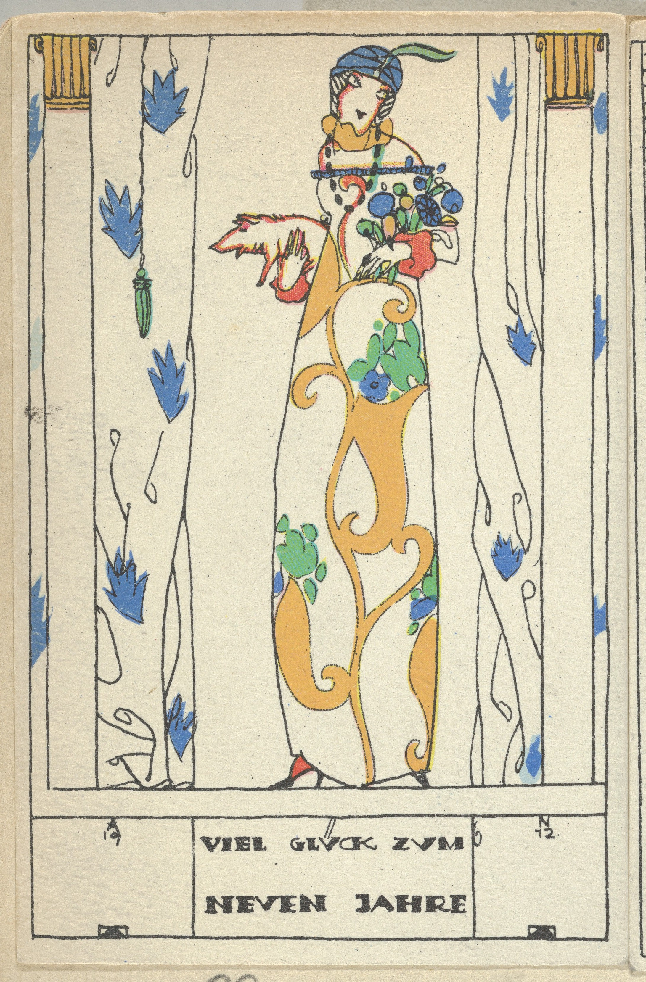 Print; Prints